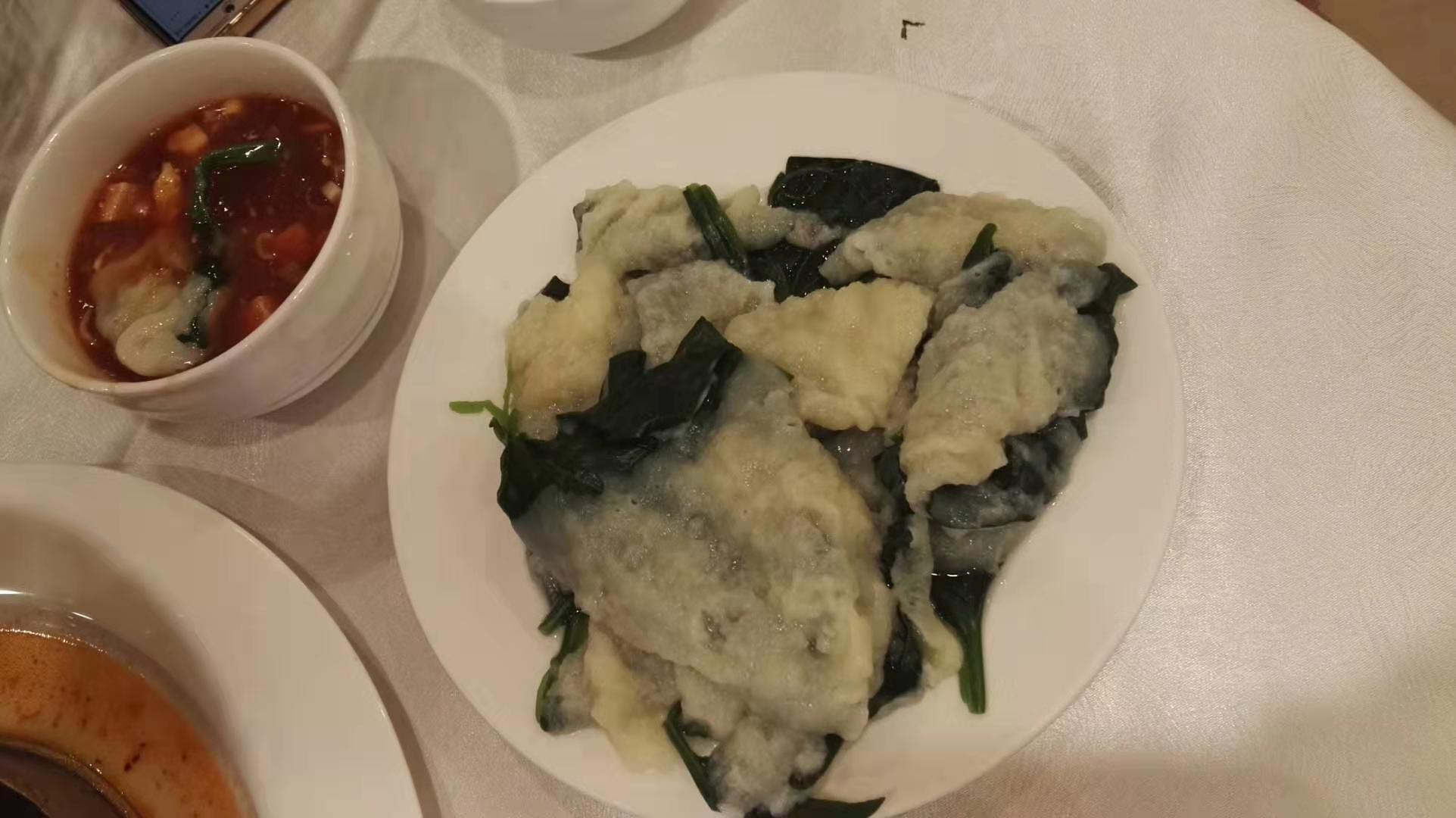 noodle cuisine of Qinxu, Shanxi.